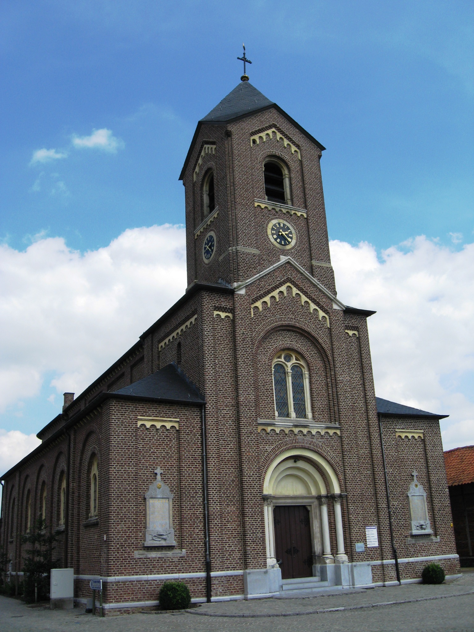 Church of the Assumption of Saint Mary in Vliermaalroot, Kortessem, Limburg, Belgium